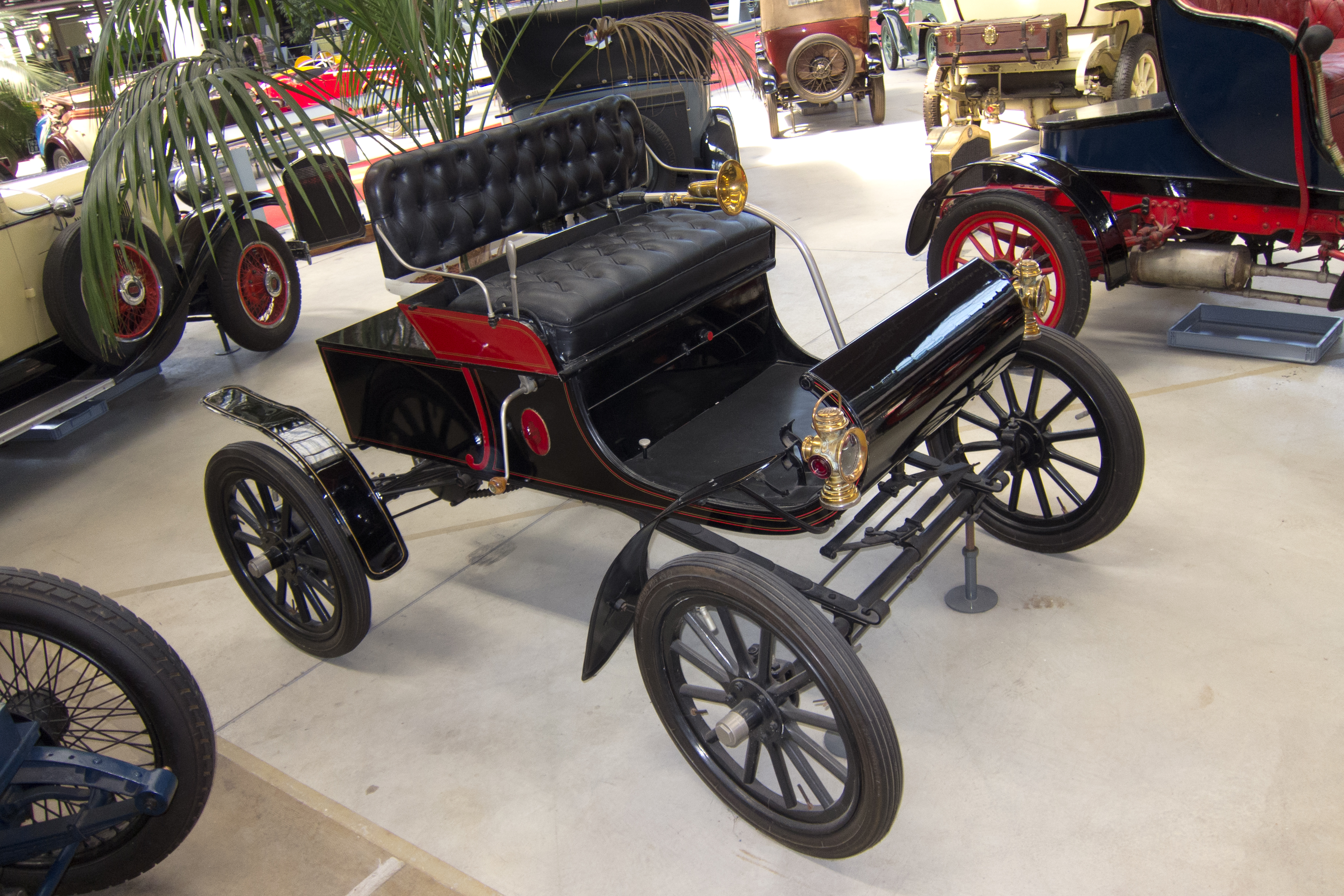 Oldsmobile Curved Dash (1904) at Autoworld Brussels, Belgium, 2011